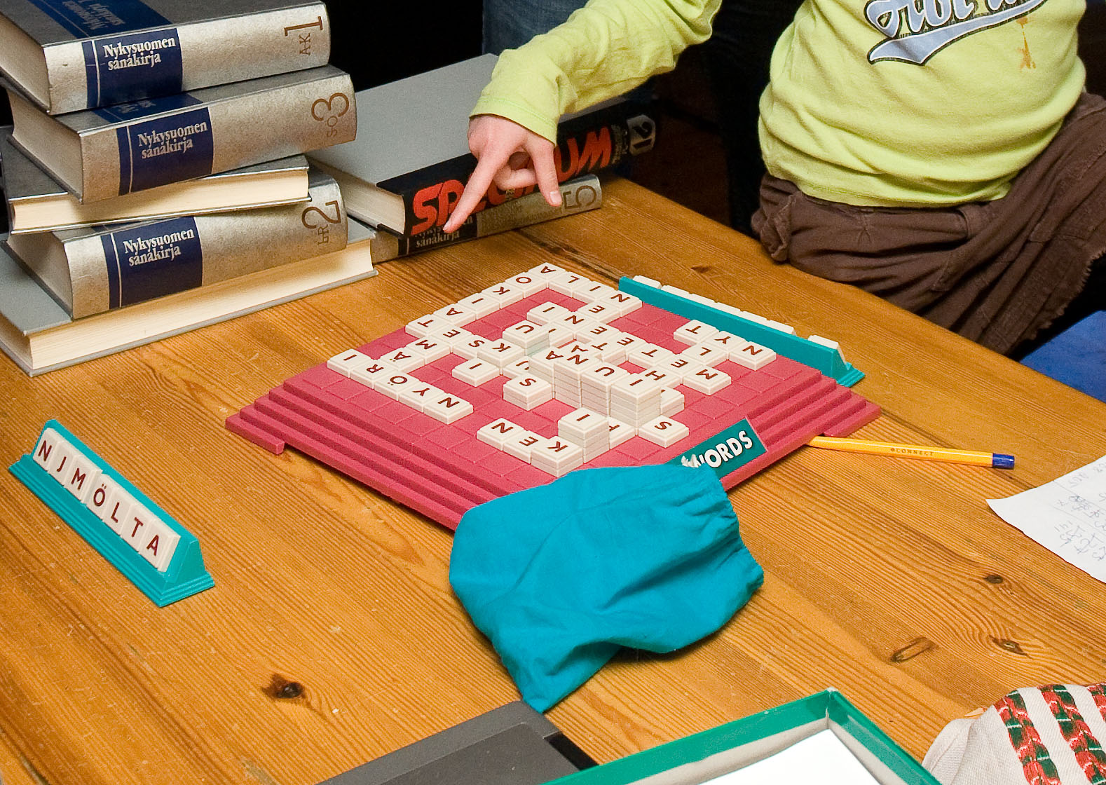 Finnish Upwords game ongoing.